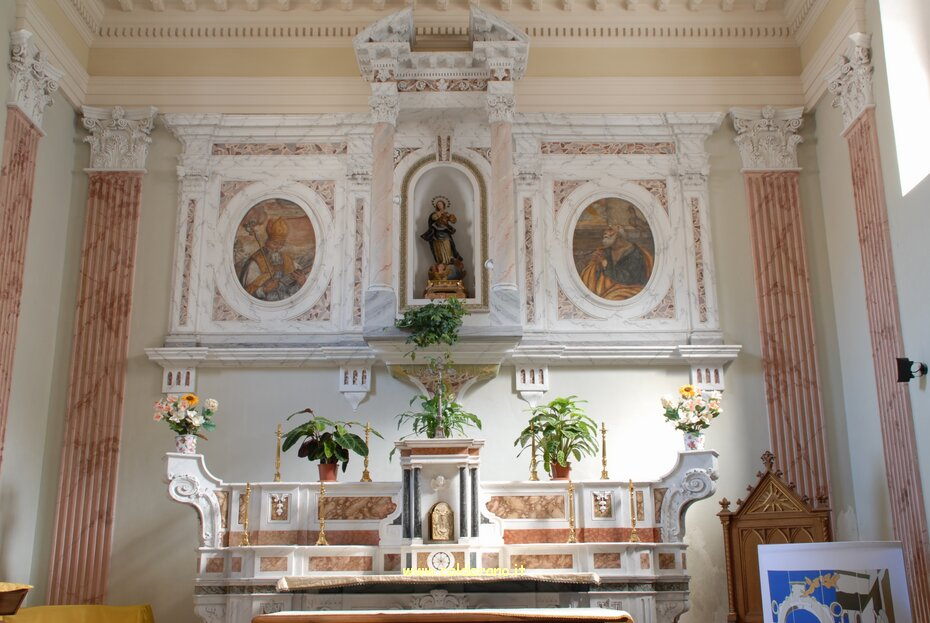 Church of St. Marie Immaculate in Maratea.